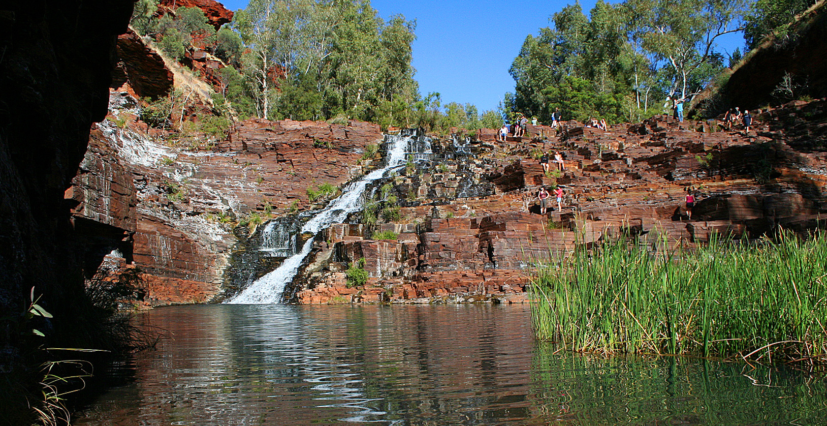 Fortescue Falls - Karijini NP (WA)